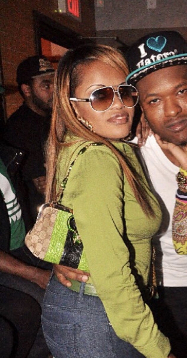 Jacki-O in ATL 2013